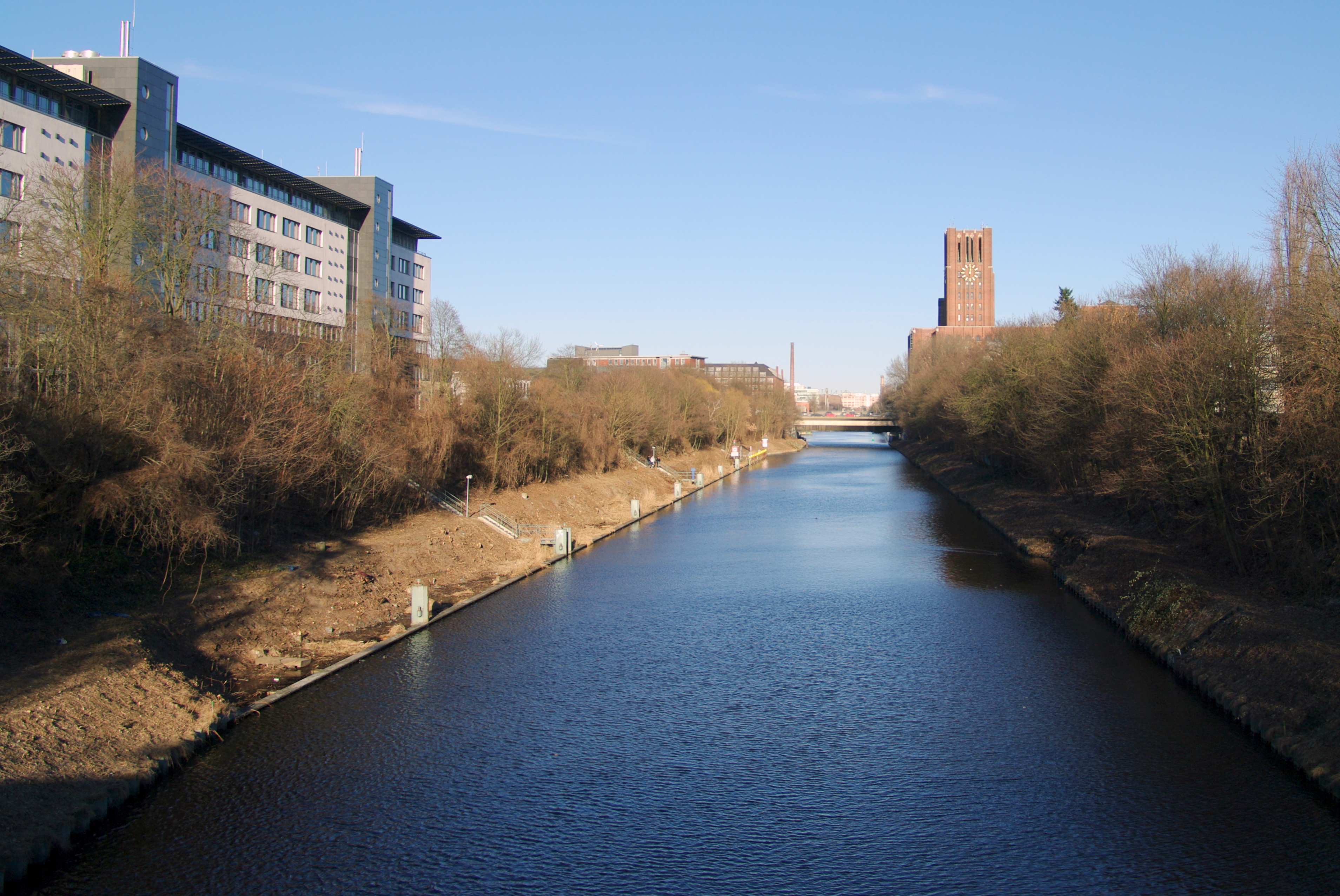 Looking from the Rathausstraße/Alarichstraße East over the Teltow canal. On the left the Houses of the Wulfila-Ufer street, on the right in the background the Ullsteinhaus.